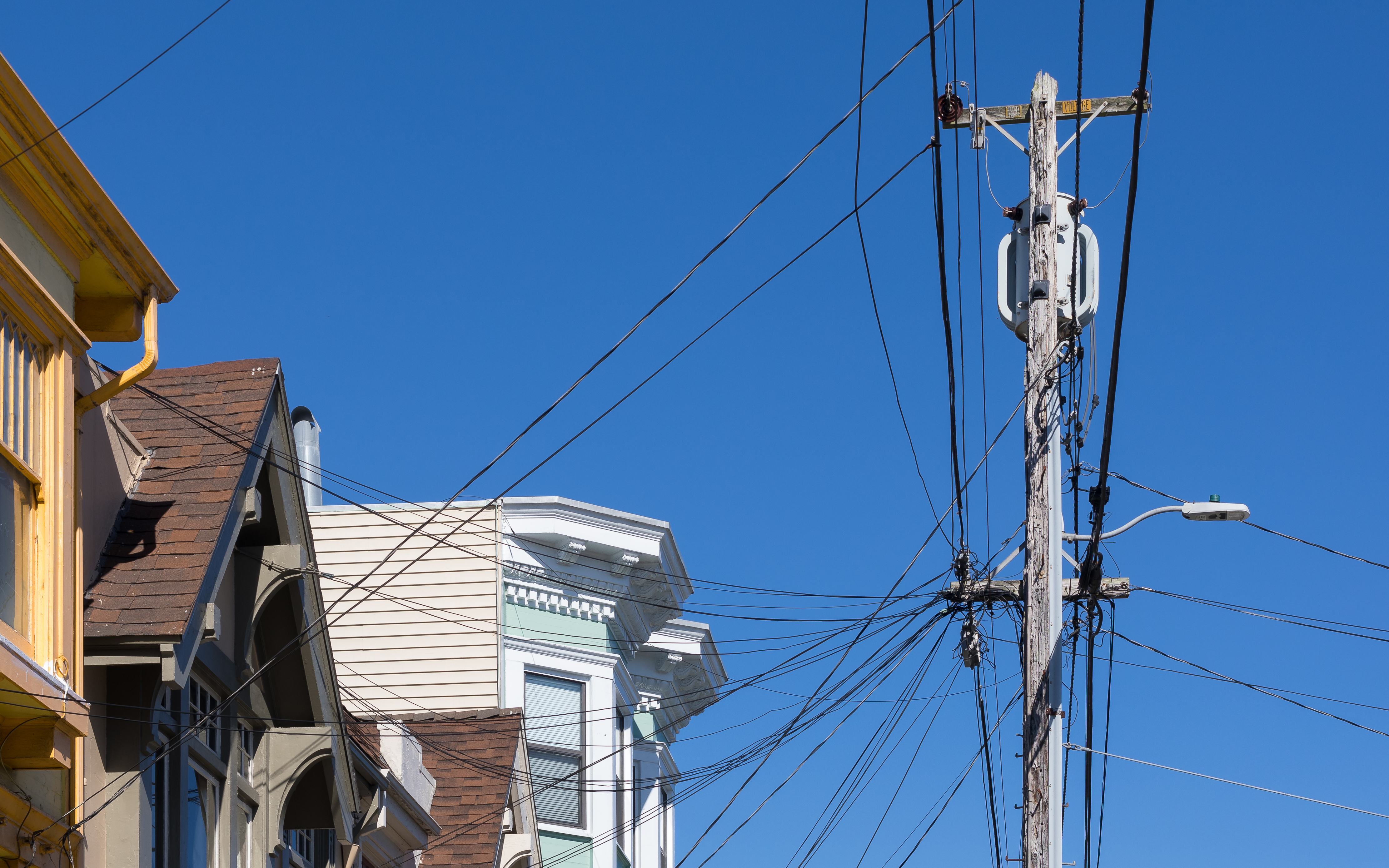 Antiquated electrical infrastructure in San Francisco’s Inner Richmond District